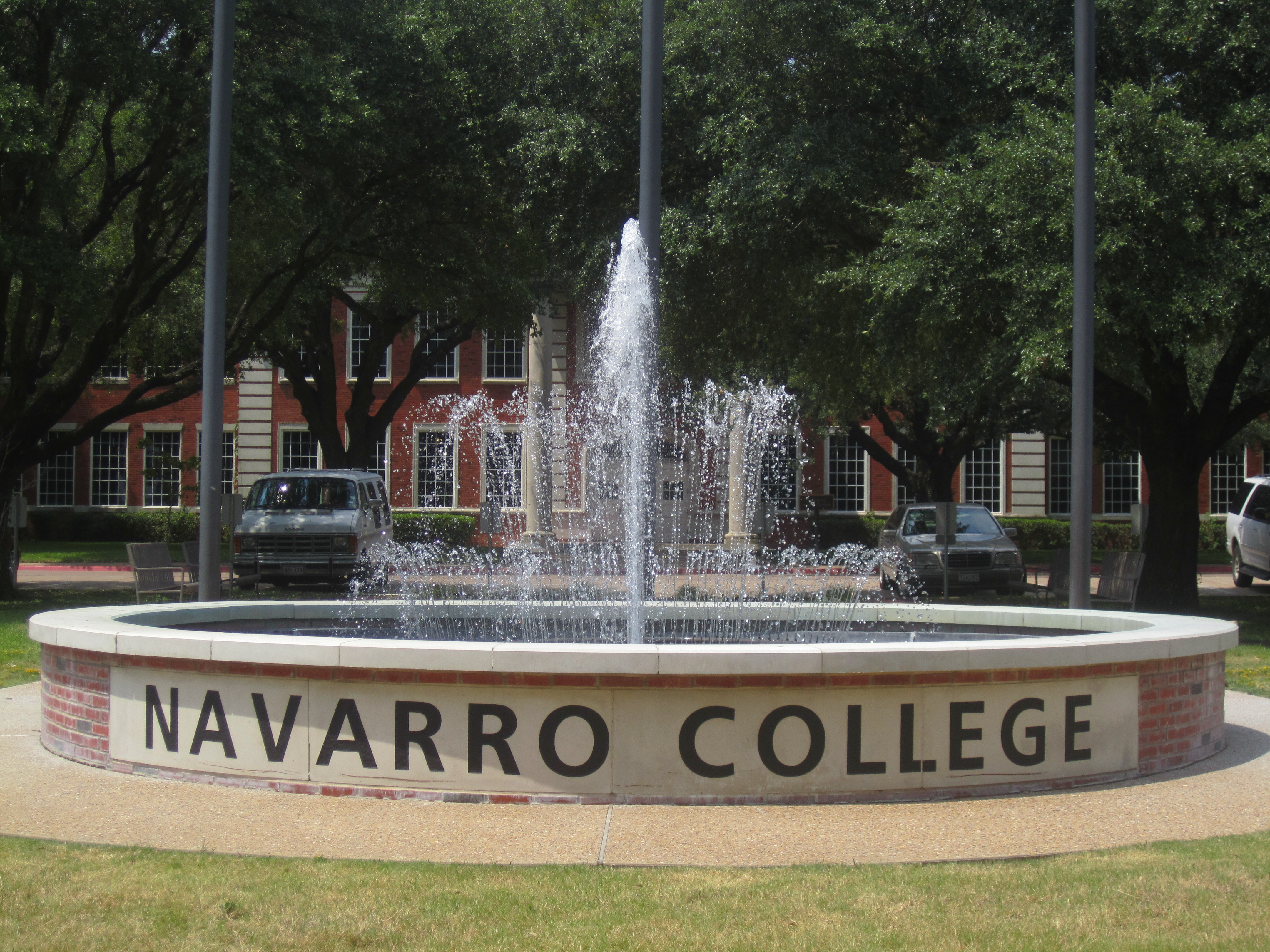 I took photo with Canon camera in Corsicana, TX.